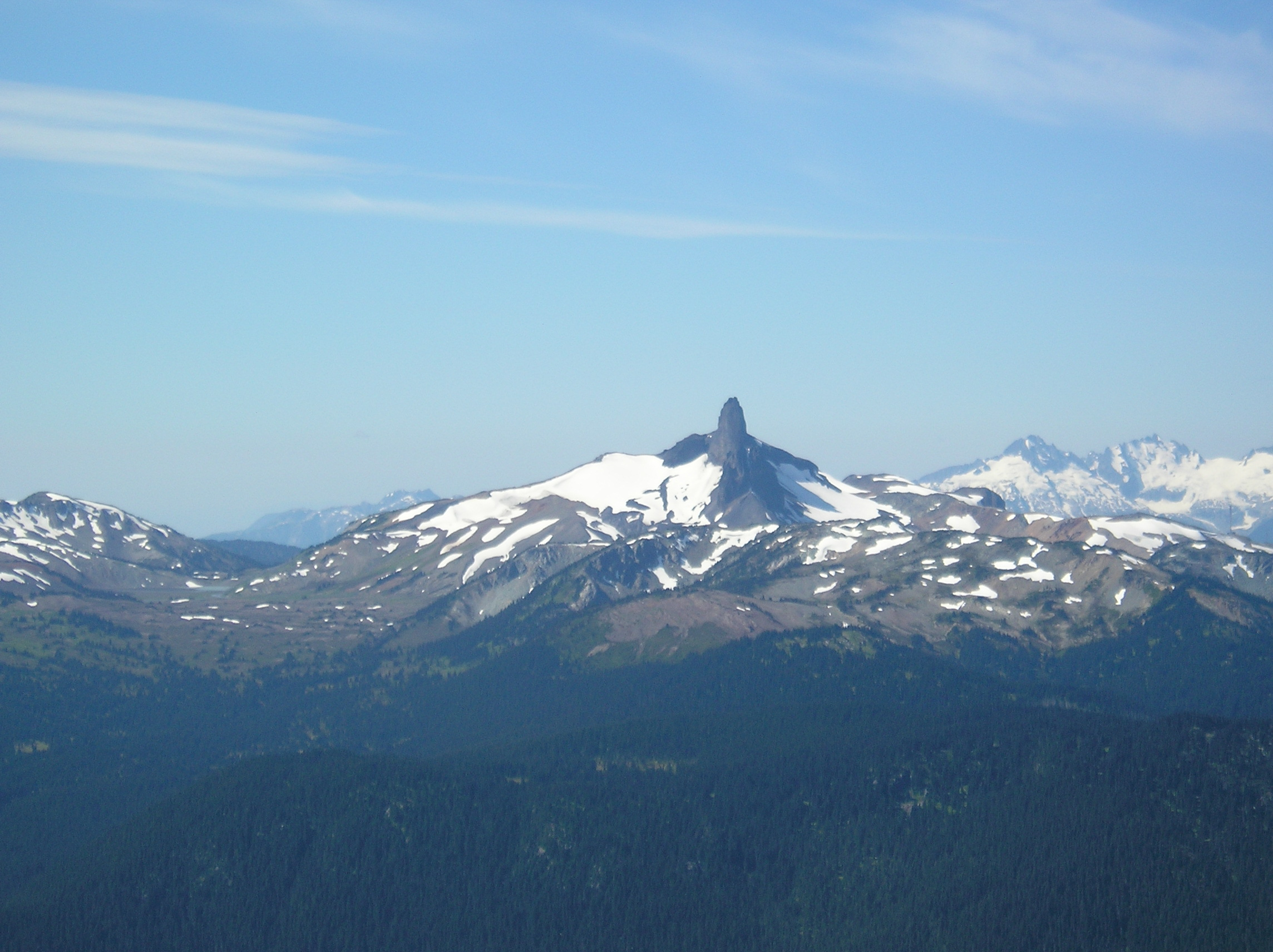 Black Tusk in Garibaldi Provincial Park, British Columbia, Canada. As seen from Whistler Mountain